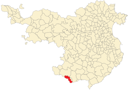 Riells